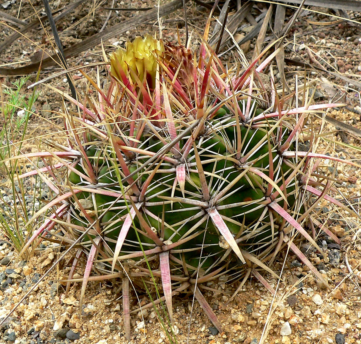 Photo of Ferocactus viridescens at the University of California Botanical Garden